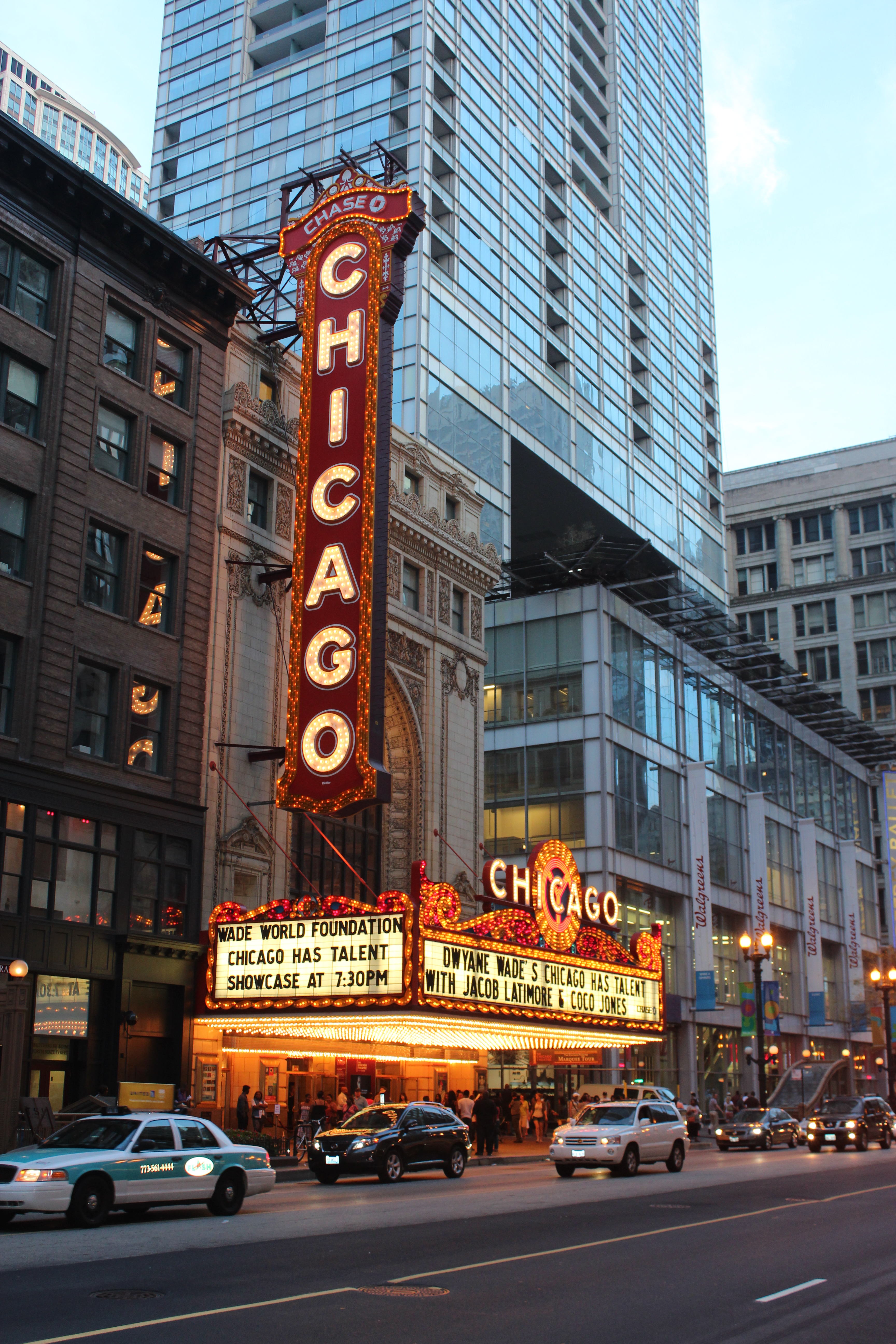 Dwyane Wade's talent search at Chicago Theatre